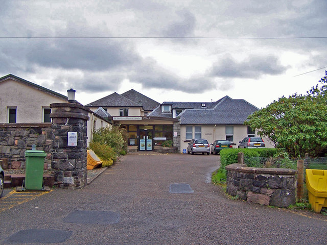 Dr. MacKinnon Memorial Hospital, Broadford One of two hospitals on Skye, the other being in Portree. The hospital offers a wide range of services. The building is dated 1963. More information - An t-Ospadal Mackinnon Memorial san Àth Leathann. Fear den dà ospadal a tha san Eilean Sgitheanach - tha am fear eile ann am Port Rìgh. Tha an togalach bho 1963. Barrachd fiosrachaidh